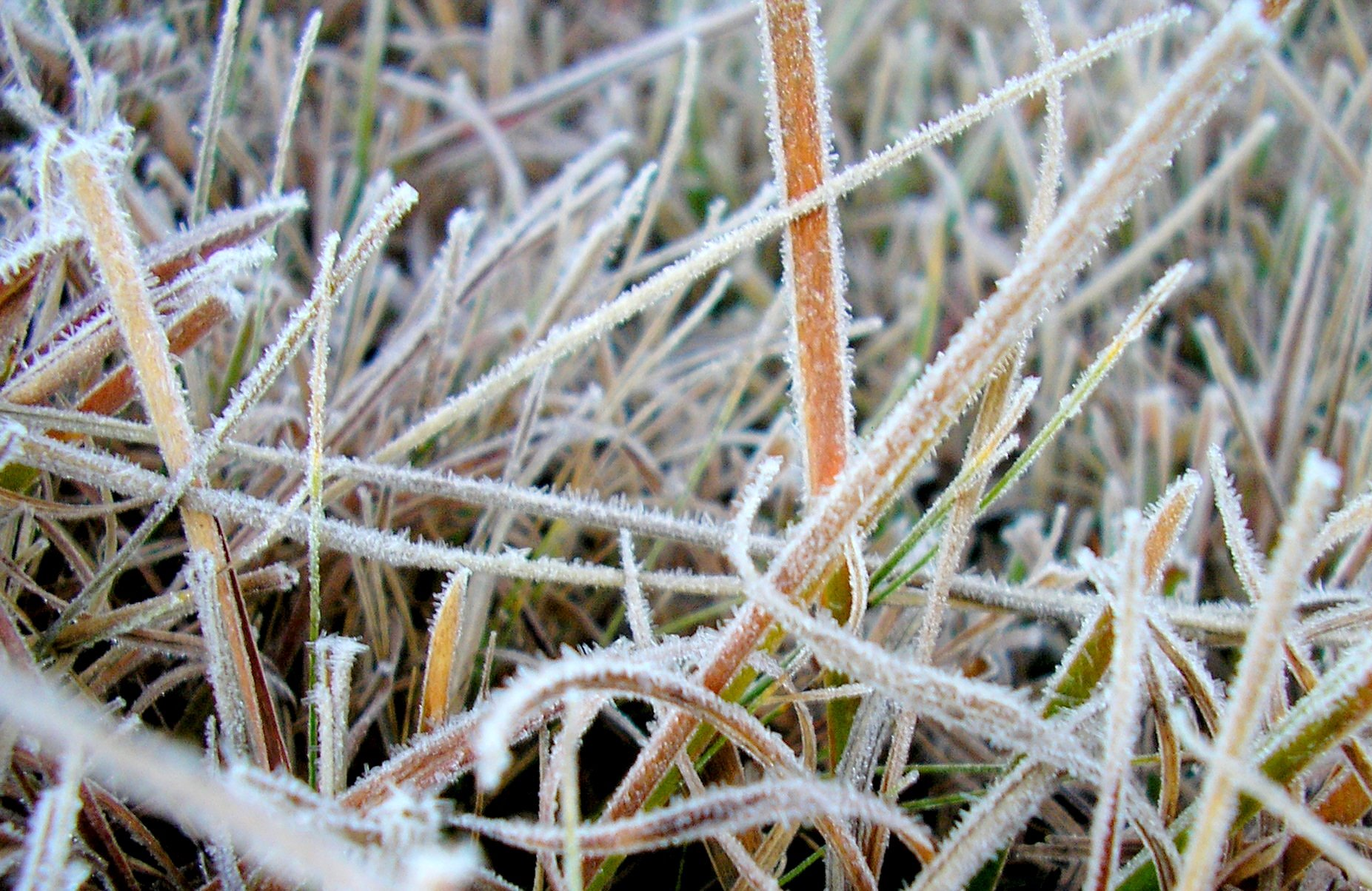 Picture in macro of a frost in São José dos Ausente/RS Brazil.